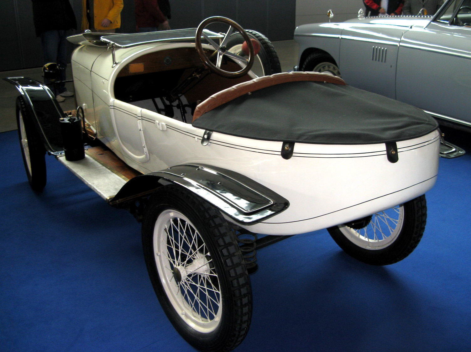 1922 Koco 4/12 hp Cyclecar